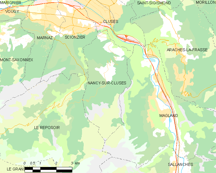 Map of French municipality Nancy-sur-Cluses